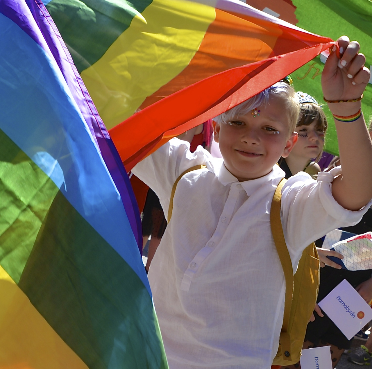 The concluding Pride Parade during Stockholm Pride 2013.